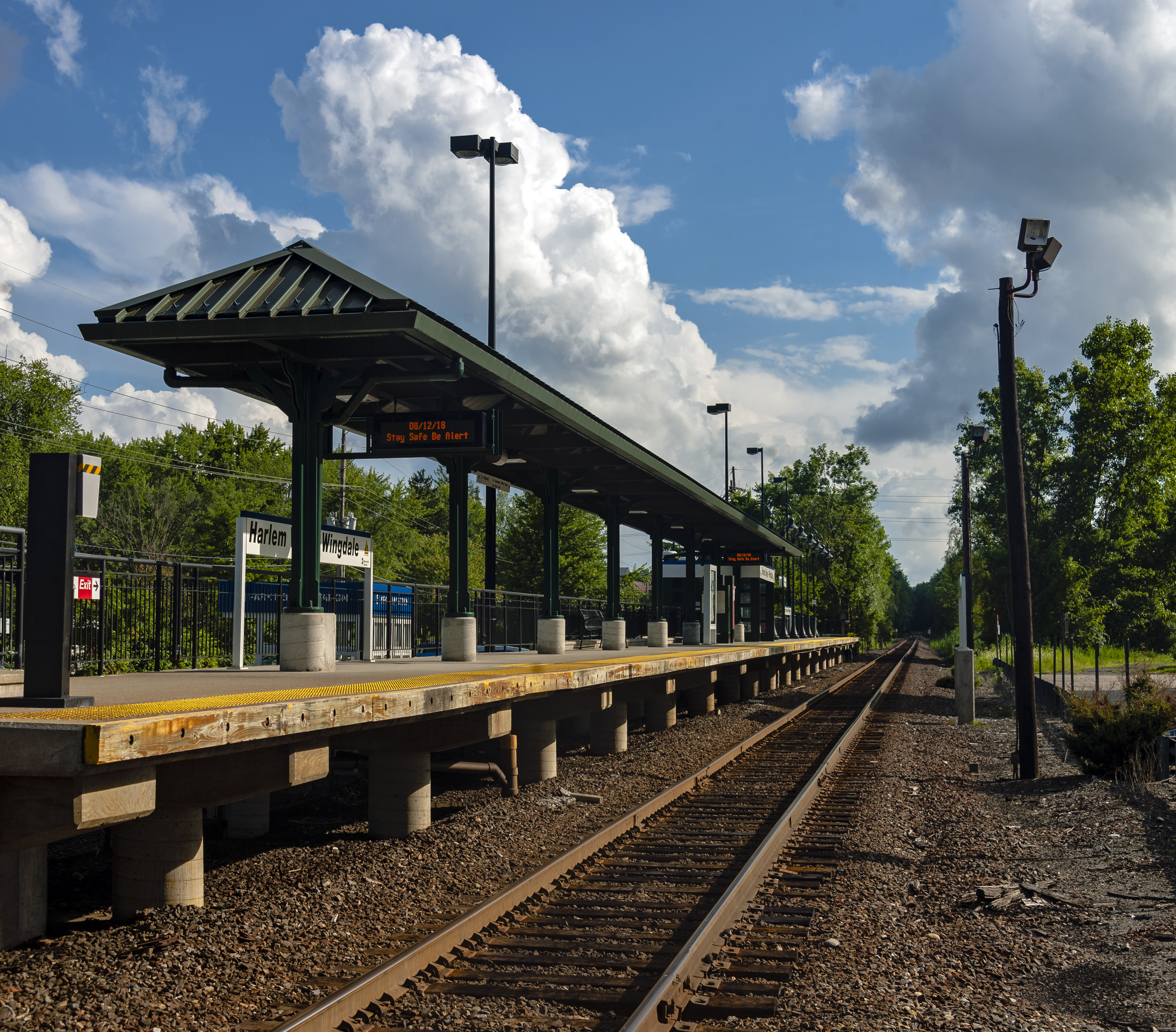 The Harlem Valley–Wingdale station on Metro-North Railroad's Harlem Line north of Pawling, NY, USA, seen from the grade crossing to its immediate north